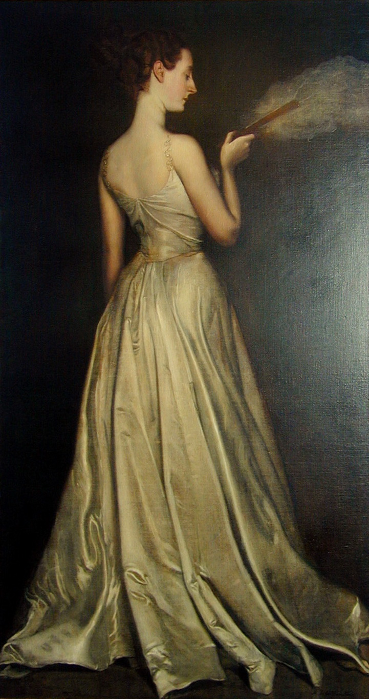 Madame Pierre Gautreau (1859 – 1915), 1897, by Antonio de la Gandara (French, 1861 – 1917). Oil on canvas; 84 x 36 in. On loan from Blair Darnell, L2006.019.ac